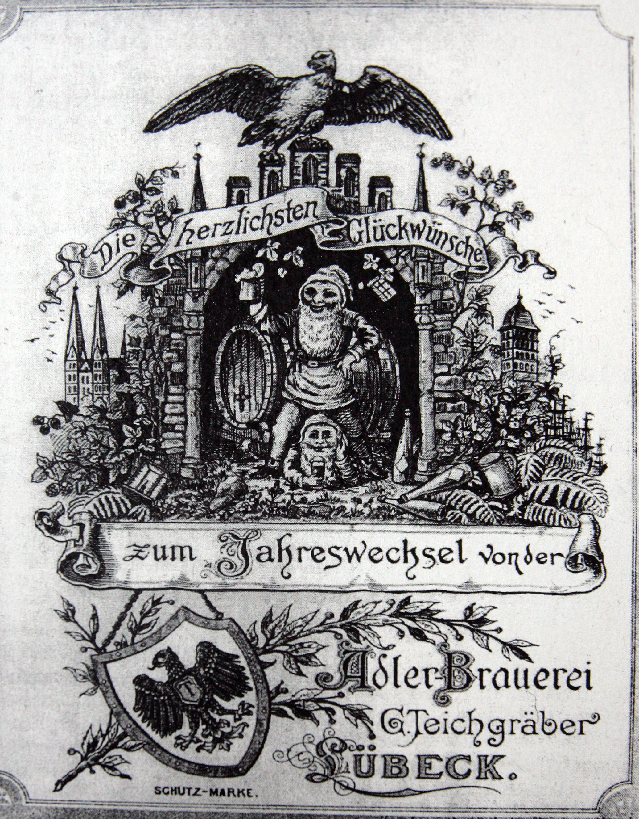 Wallpaper of Adler-Brewery, Lübeck 1890